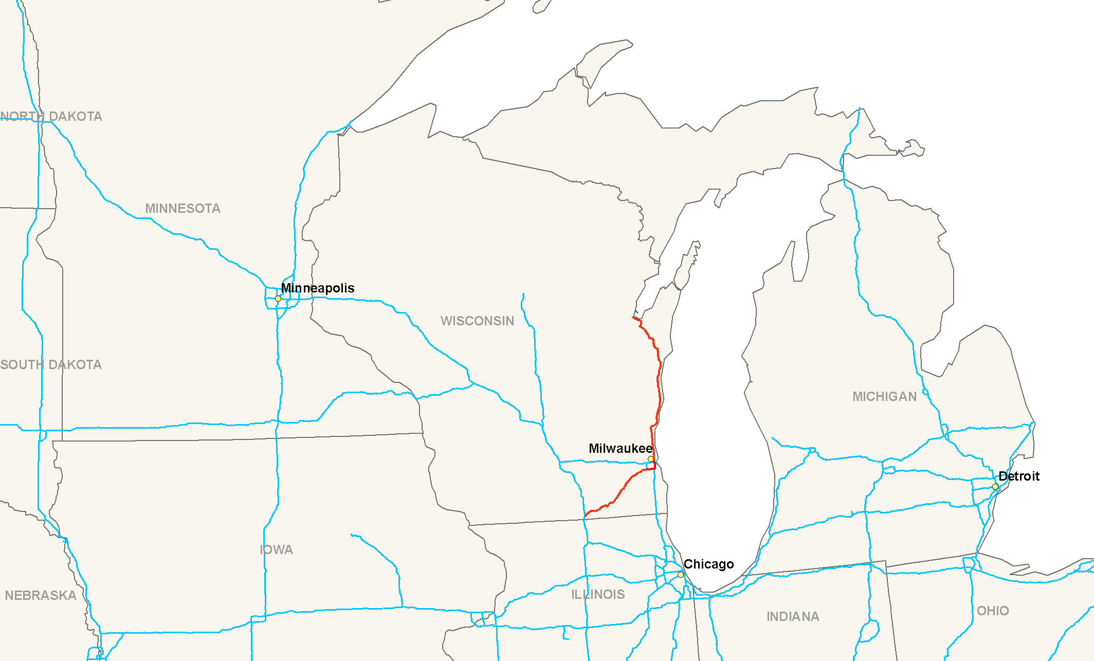 Map of Interstate 43